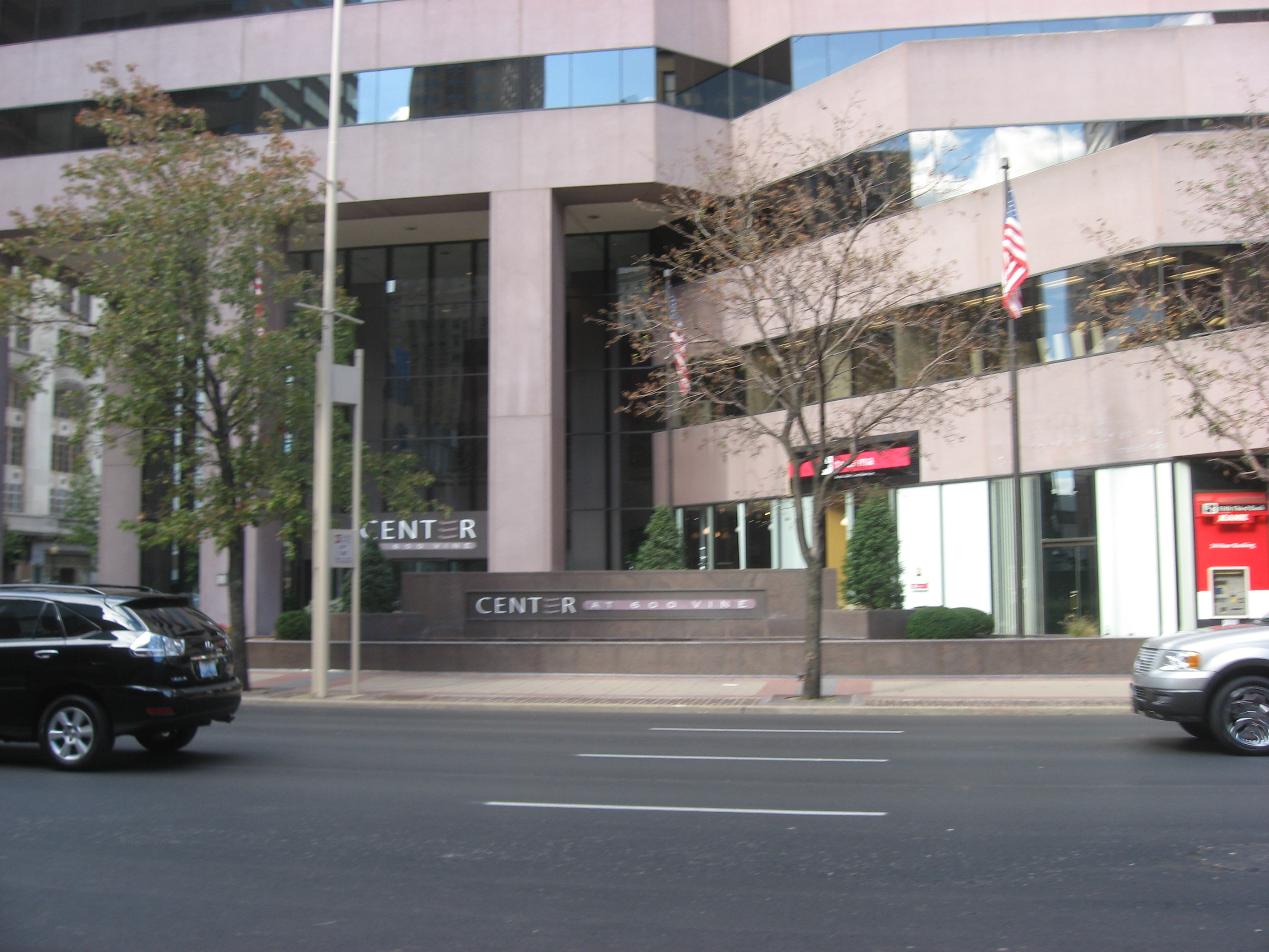 Sixth Street front of the Center at 600 Vine in downtown Cincinnati, Ohio, United States. It occupies the site of the Palace Theatre, which was built in 1918. The Palace was listed on the National Register of Historic Places in 1980; it remains on the Register, even though it has been destroyed.